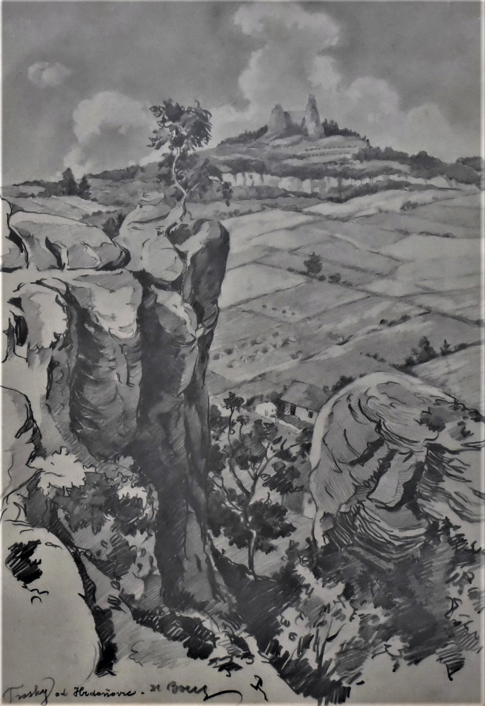 Trosky od Hrdoňovic (1931), by Julius Bous (1878-1944)